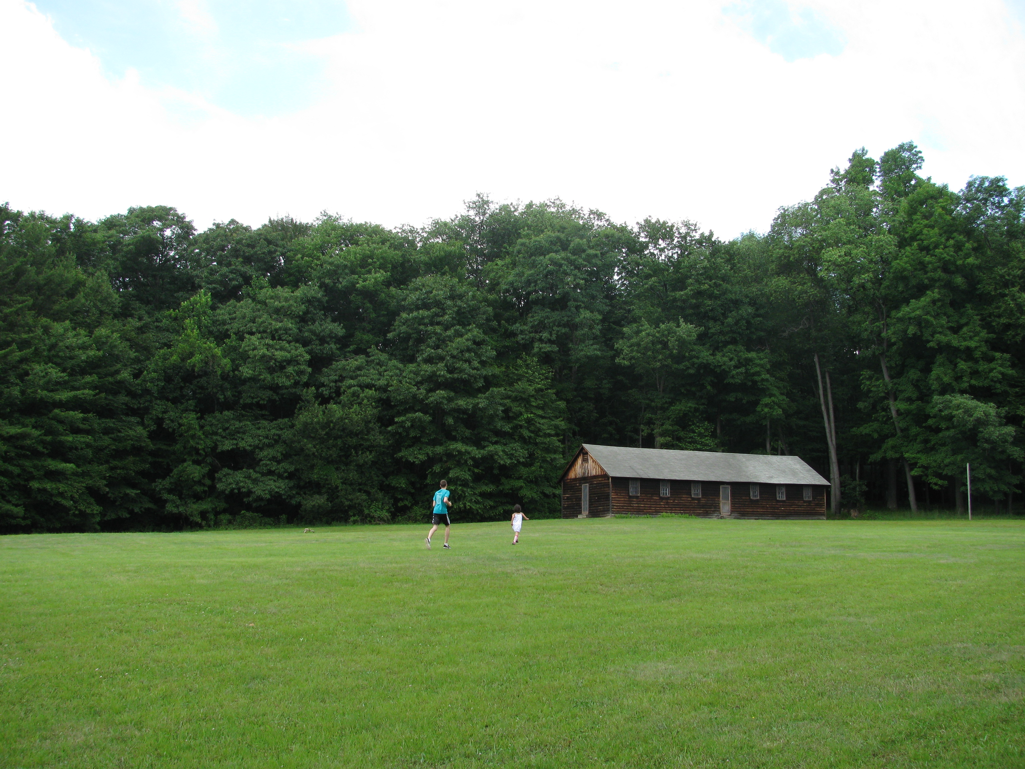 One of the cabins built by the CCC during the Great Depression.